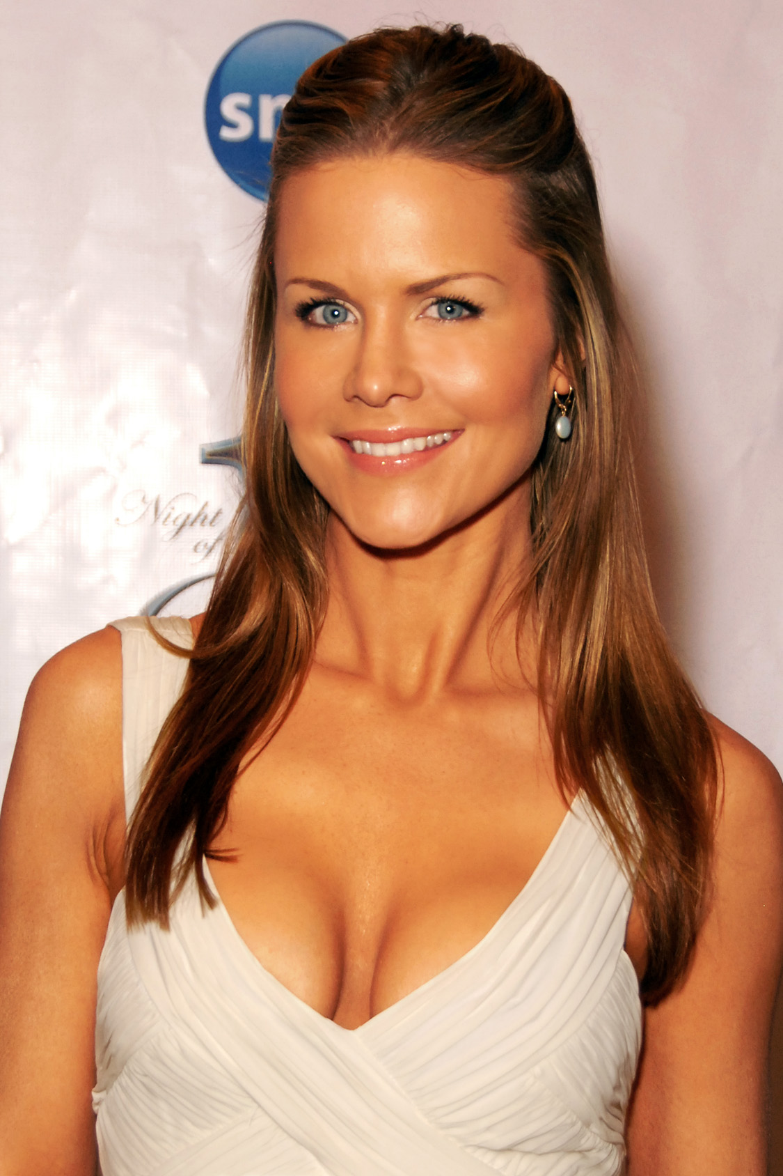 Josie Davis attending the "Night of 100 Stars" for the 82nd Academy Awards viewing party at the Beverly Hills Hotel, Beverly Hills, CA on March 7, 2010 - Photo by Glenn Francis of